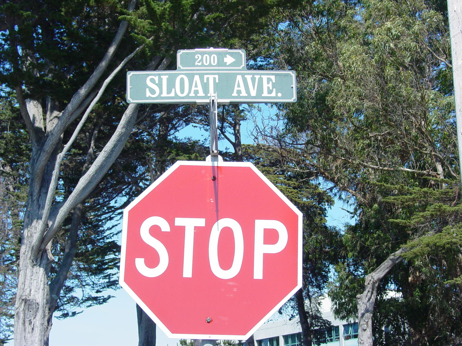 I took this picture myself back in 2003 when visiting California.